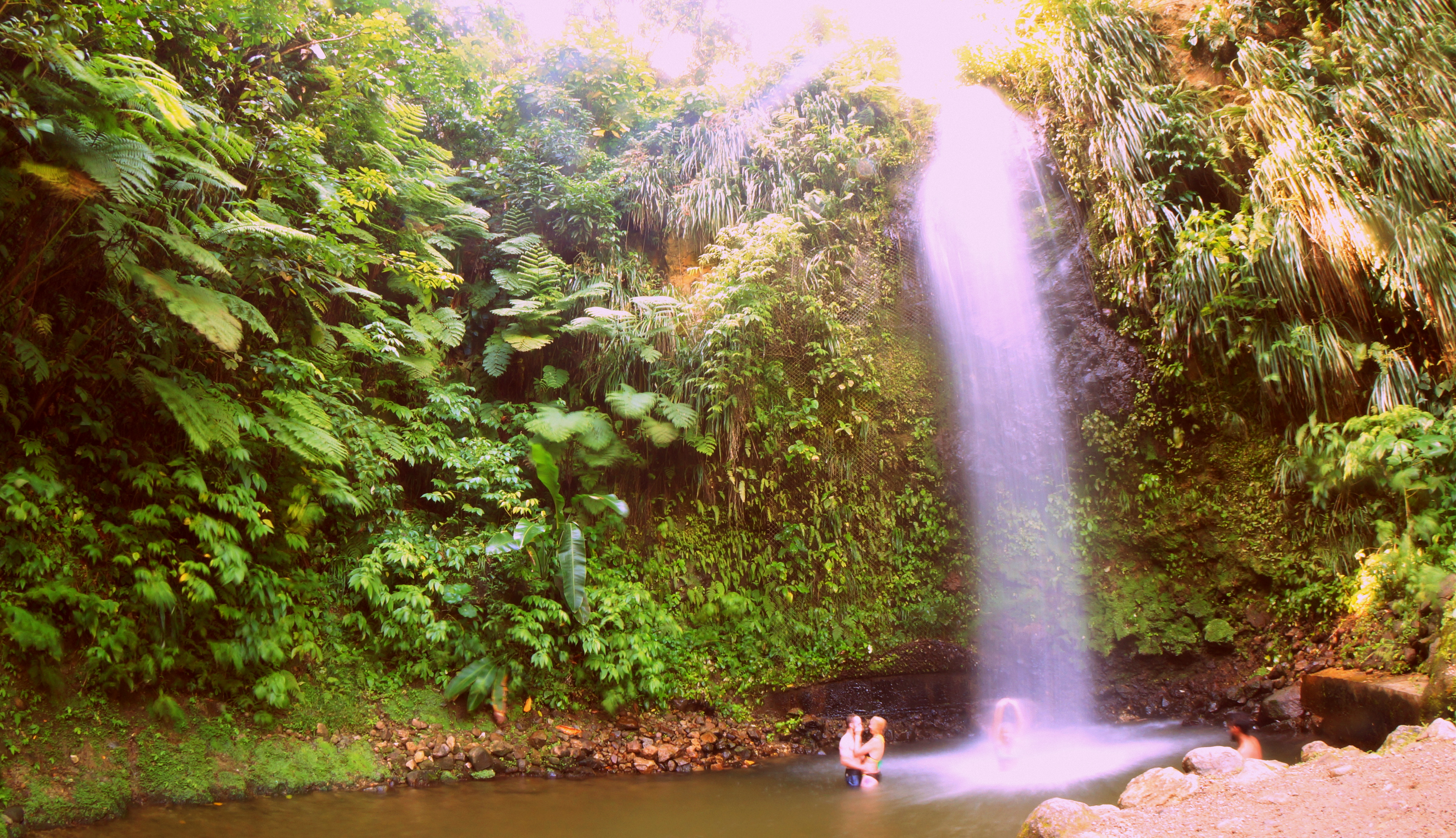 Toraille Waterfall in Saint Lucia. More freely usable pictures of and related to Saint Lucia. Please credit and link to Saint Lucia Travel when using this image.